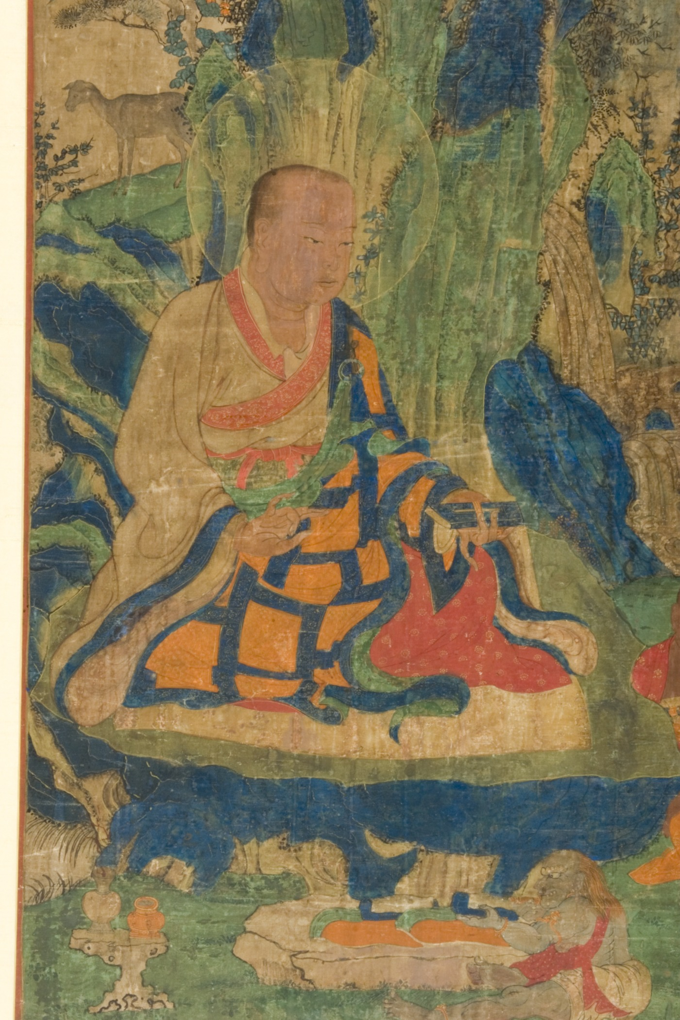 Eastern Tibet, Kham region, a Trungpa Monastery in Surmang (?), circa early 17th century Paintings Mineral pigments and gold on silk Sight: 31 x 21 in. (78.74 x 53.34 cm); Framed: 3 8 x 27 1/4 x 3/4 in. (96.52 x 69.22 x 1.91 cm) Gift of the James and Paula Coburn Foundation (M.2005.154.1) South and Southeast Asian Art